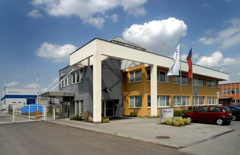 Technistone Headquarters